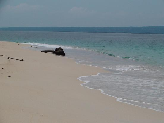 Morrocoy, Cayo Borracho.